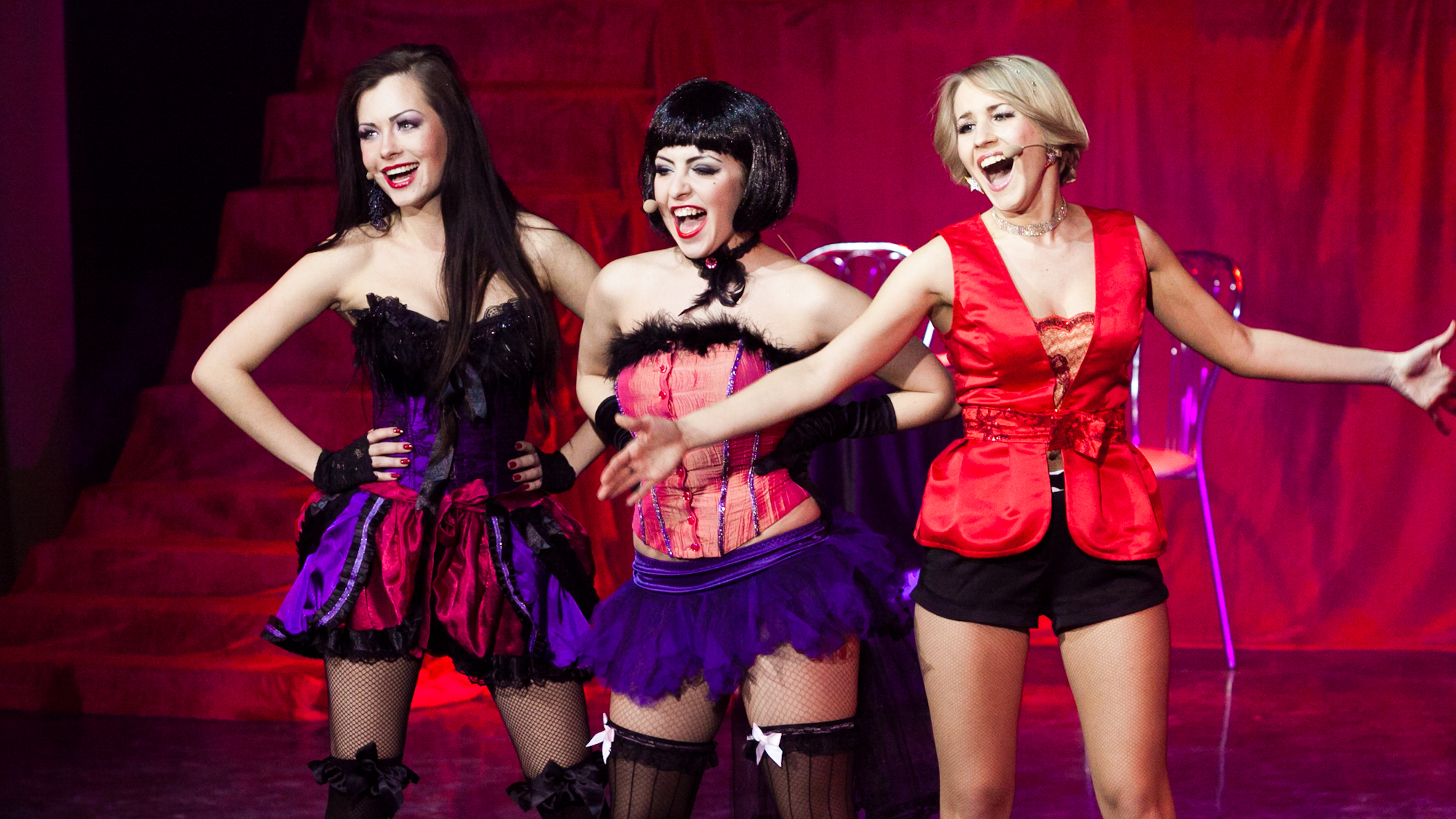 Photo Cabaret Burlesque by Comme Il Faut